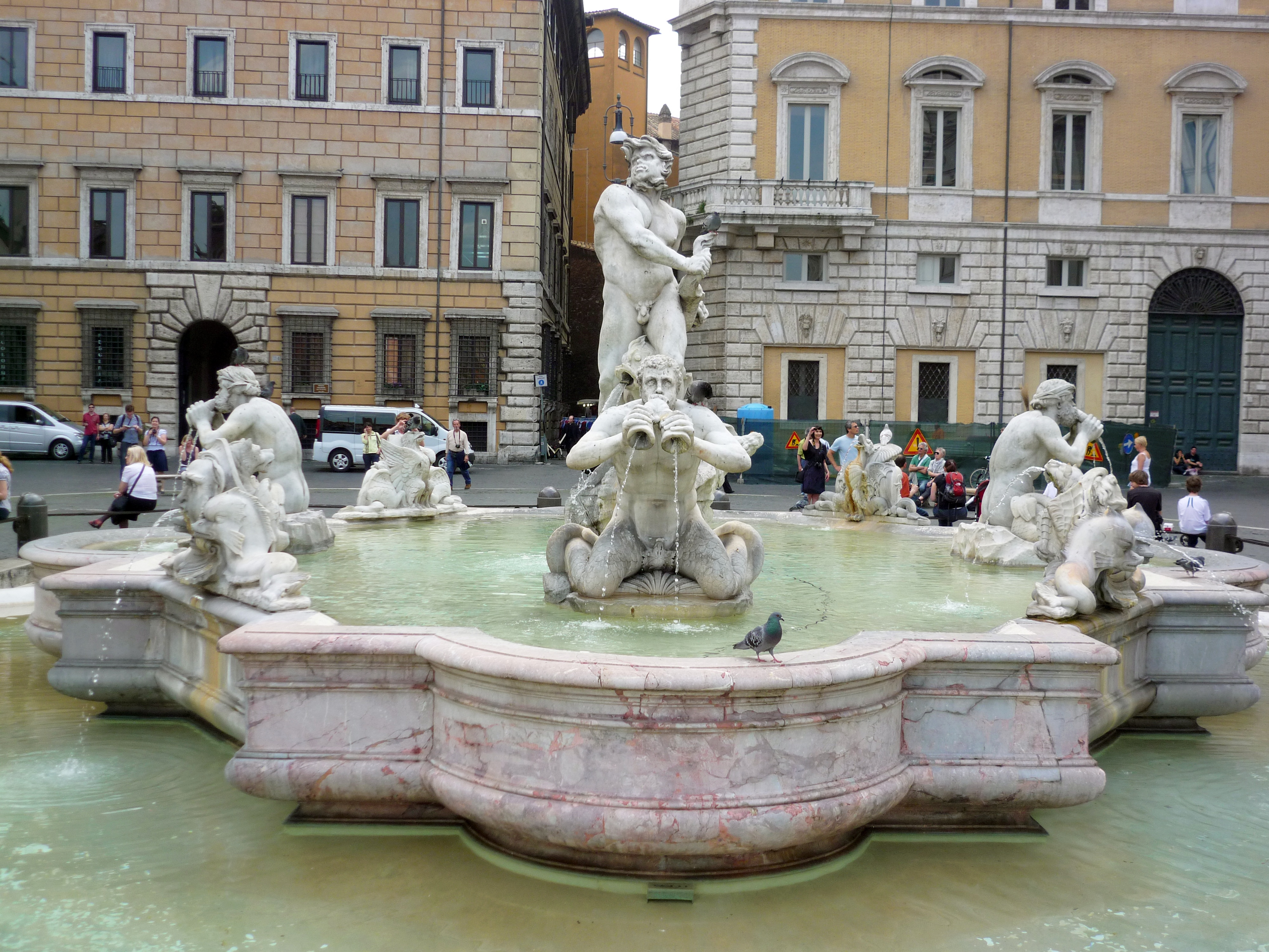 Rome, Piazza Navona (del Moro fountain)